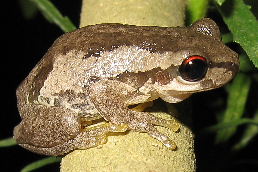 The Bleating Tree Frog (Litoria dentata)